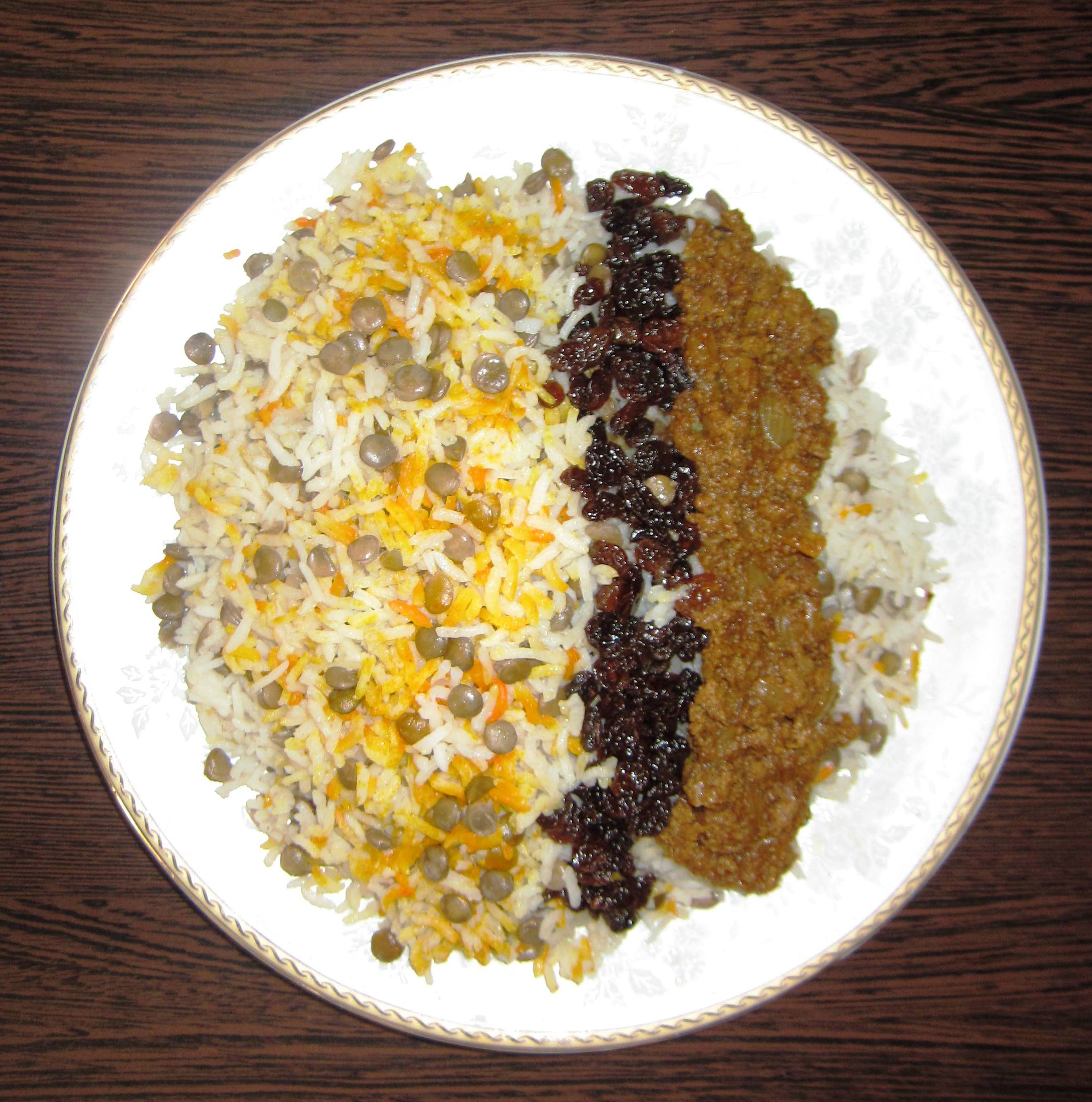 Adas polo, an Iranian food made from rice and lentil.